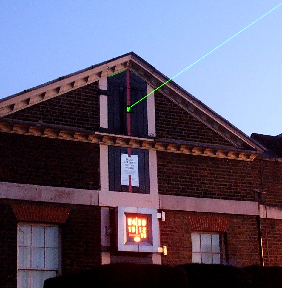 I took this picture of the laser at Royal Greenwich Observatory on the 5th September 2006. The Laser marks the zero meridian line and is projected northward over London.